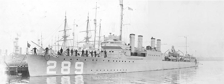 The U.S. Navy destroyer USS Flusser (DD-289) at the Boston Navy Yard, Charlestown, Massachusetts (USA), March 1920.